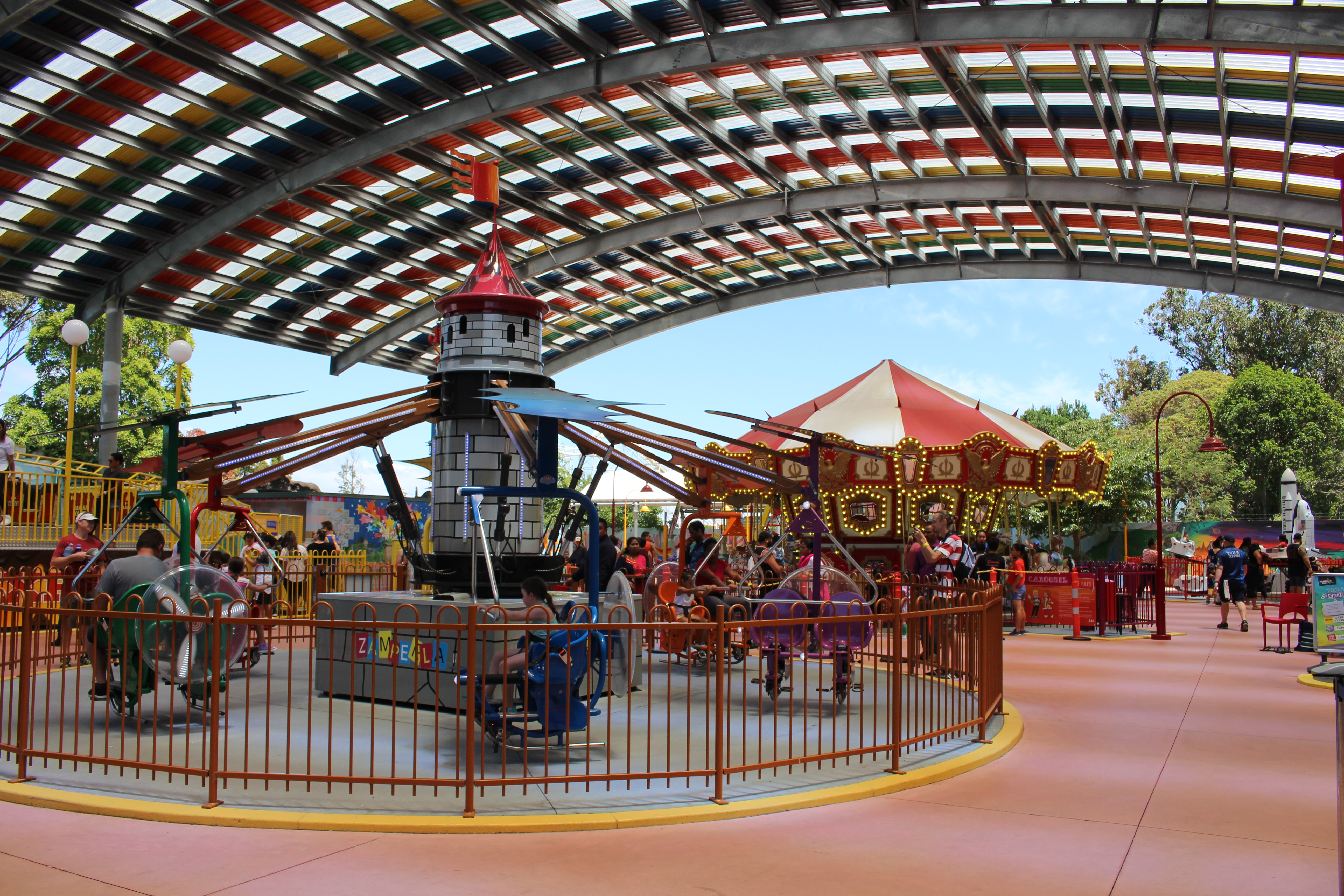 Rainbow's End Kidz Kingdom Outdoor